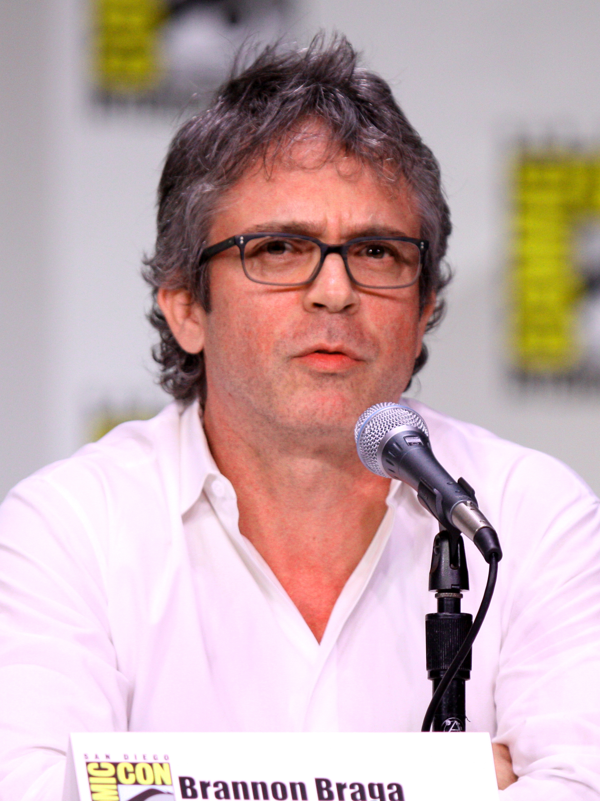 Brannon Braga at the 2011 Comic Con in San Diego